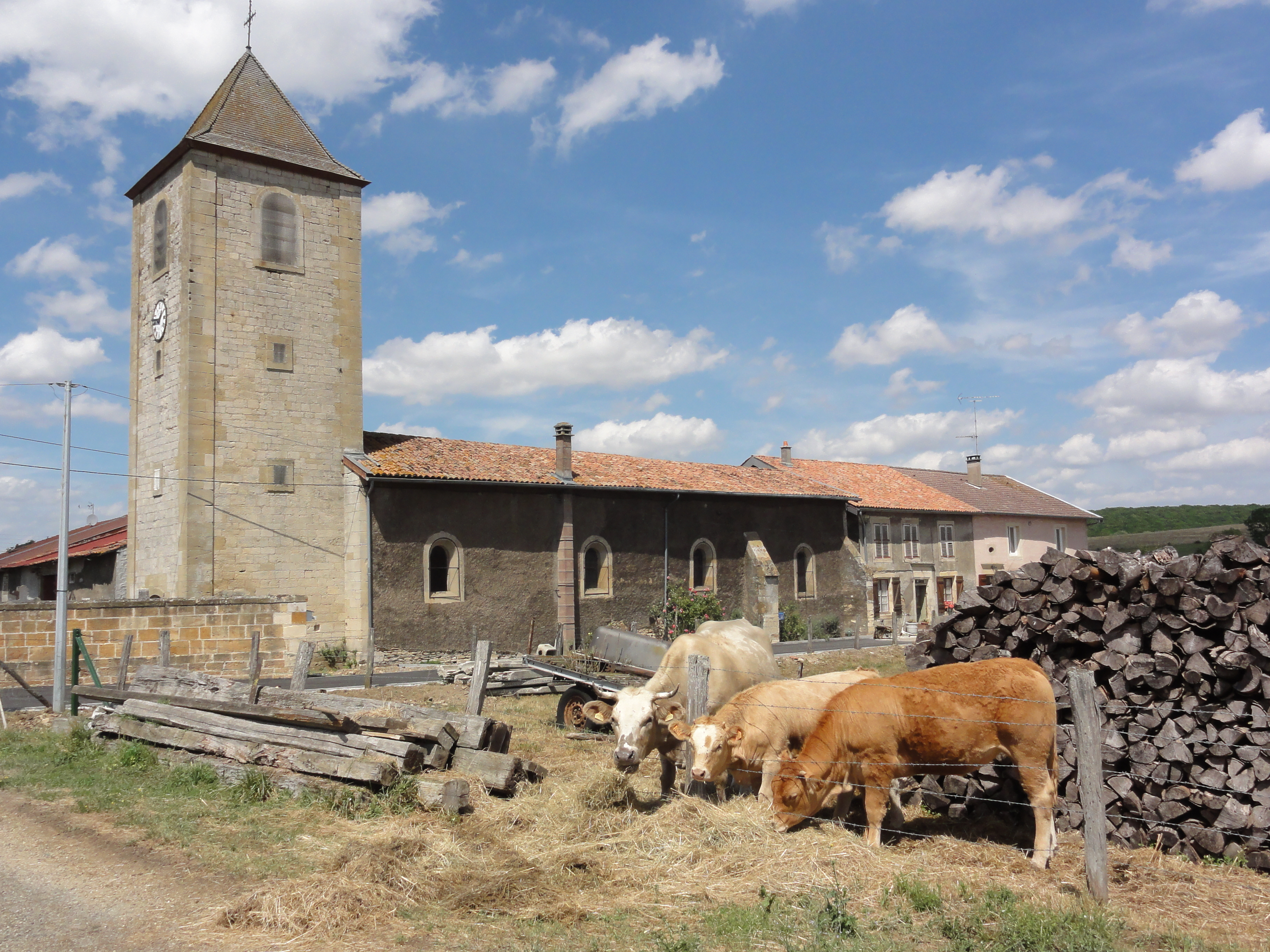 Villers-lès-Mangiennes (Meuse) église